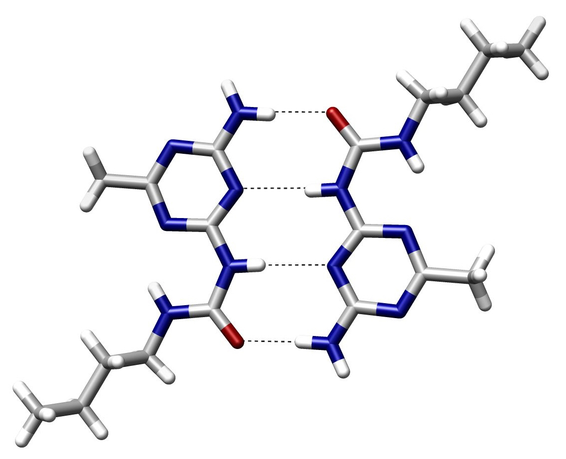 This is a picture generated from crystal structure data reported by Felix H. Beijer, Huub Kooijman, Anthony L. Spek, Rint P. Sijbesma, and E. W. Meijer in Angewandte Chemie International Edition, Year 1998, Volume 37, Pages 75-78. It shows two molecules self-assembled into a dimer complex through four hydrogen bonds. It was made by myself and is free to be used by all.